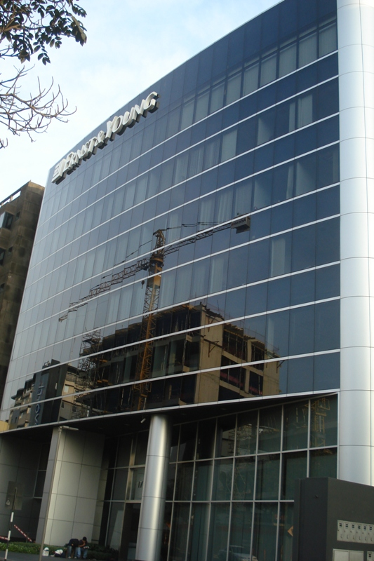 Ernst & Young headquarters in Lima, Peru